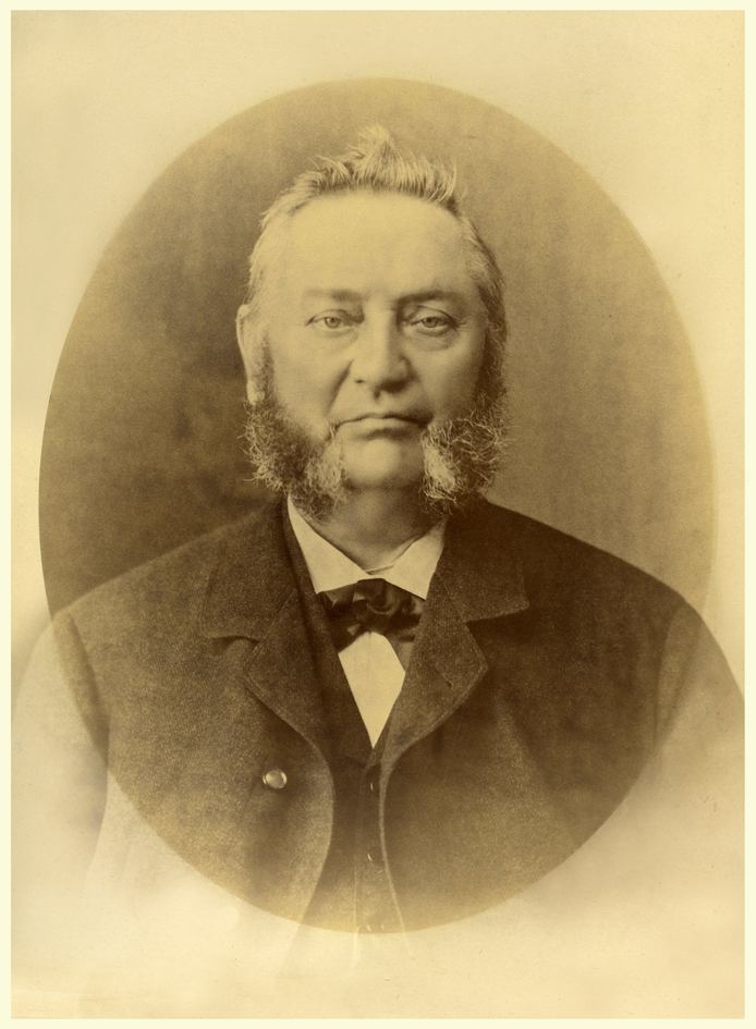 Hermann Strassburger, 1820-1886, German businessman who founded an iron foundry in 1861 which was the precursor of Gelsenkirchener Gussstahl- und Eisenwerke AG.